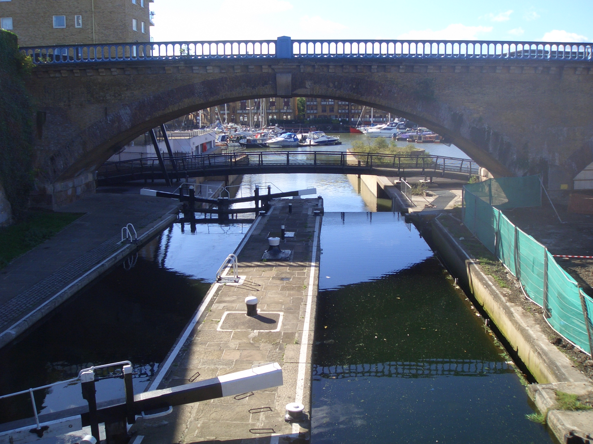 Canal lock on Regent's Canal just north of Limehouse Basin. Photo taken 2 October 2005 by User:Edward.